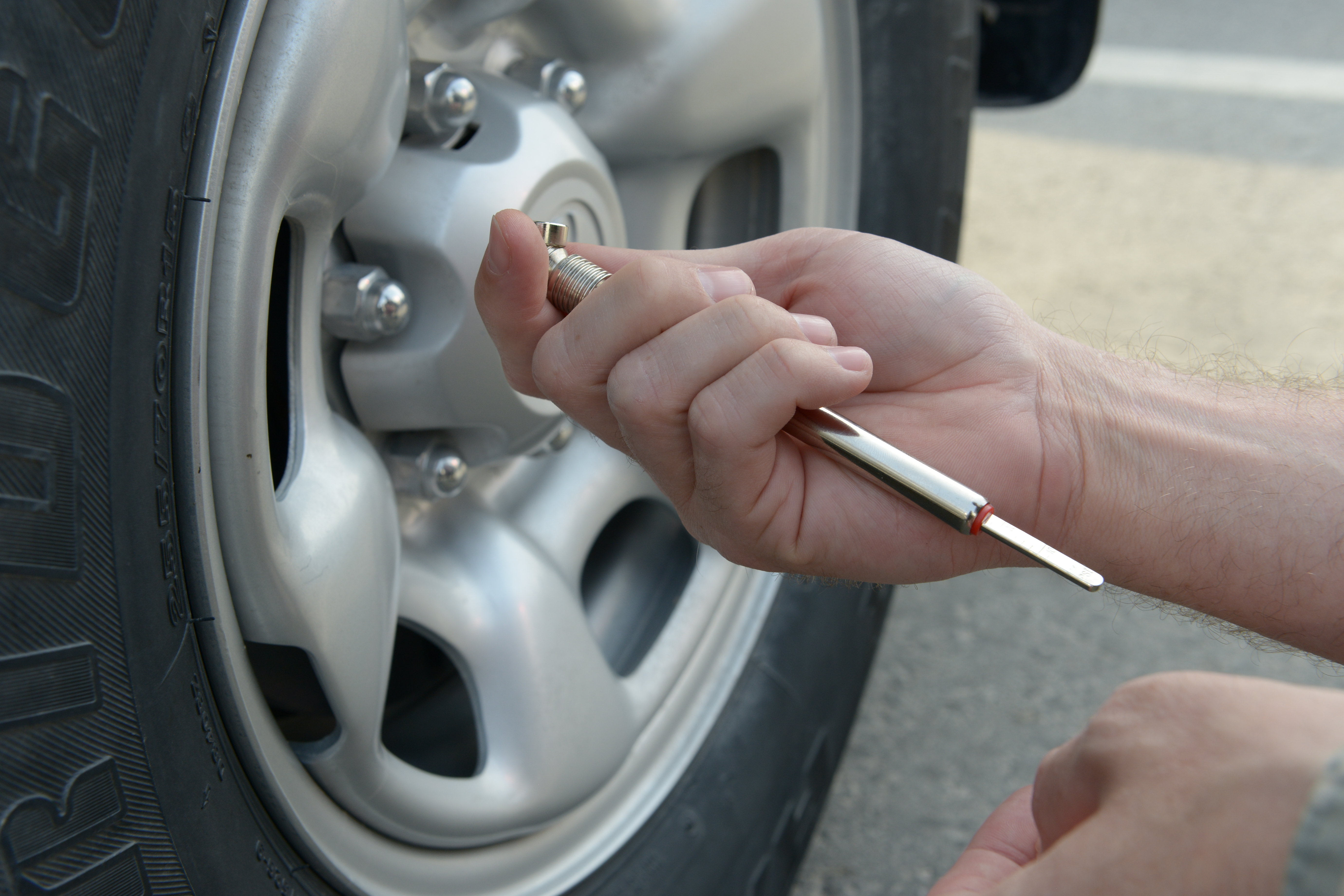 U.S. Air Force Staff Sgt. Dustin Roberts, a 379th Air Expeditionary Wing Public Affairs broadcaster, checks his tires at Al Udeid Air Base, Qatar, Jan. 10, 2014. Tire pressure was checked once a month within the first 10 days of the month and turned into the vehicle control officer.